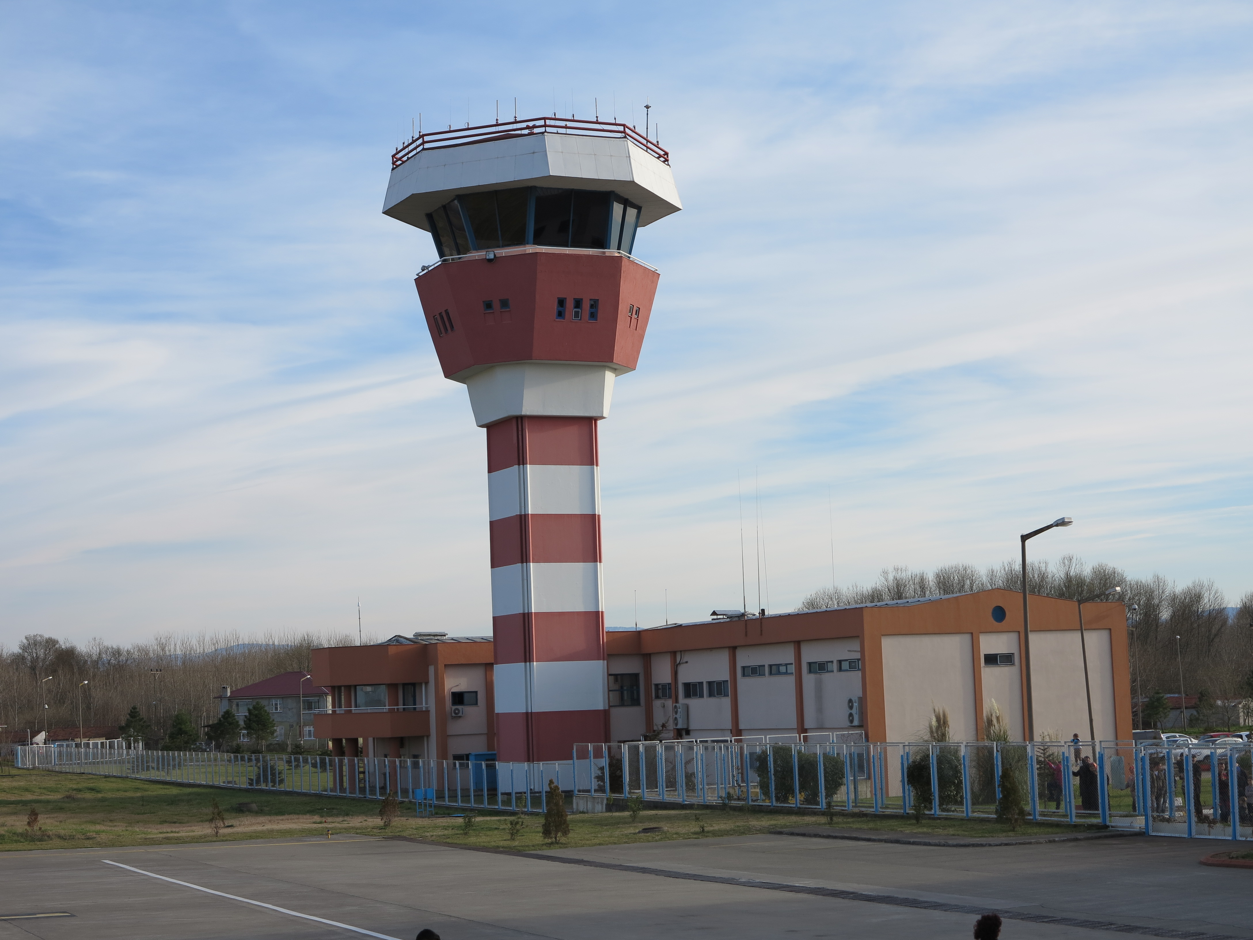 Samsun Çarşamba Airport Air Traffic Control Tower